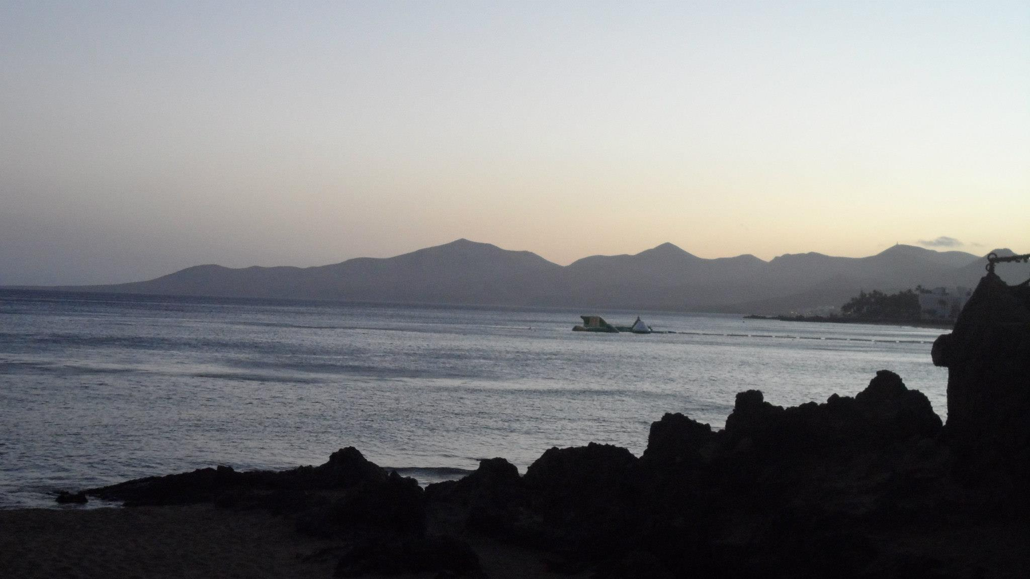 This captures the captivating sunset along the beach of Puerto Del Carmen, Lanzarote